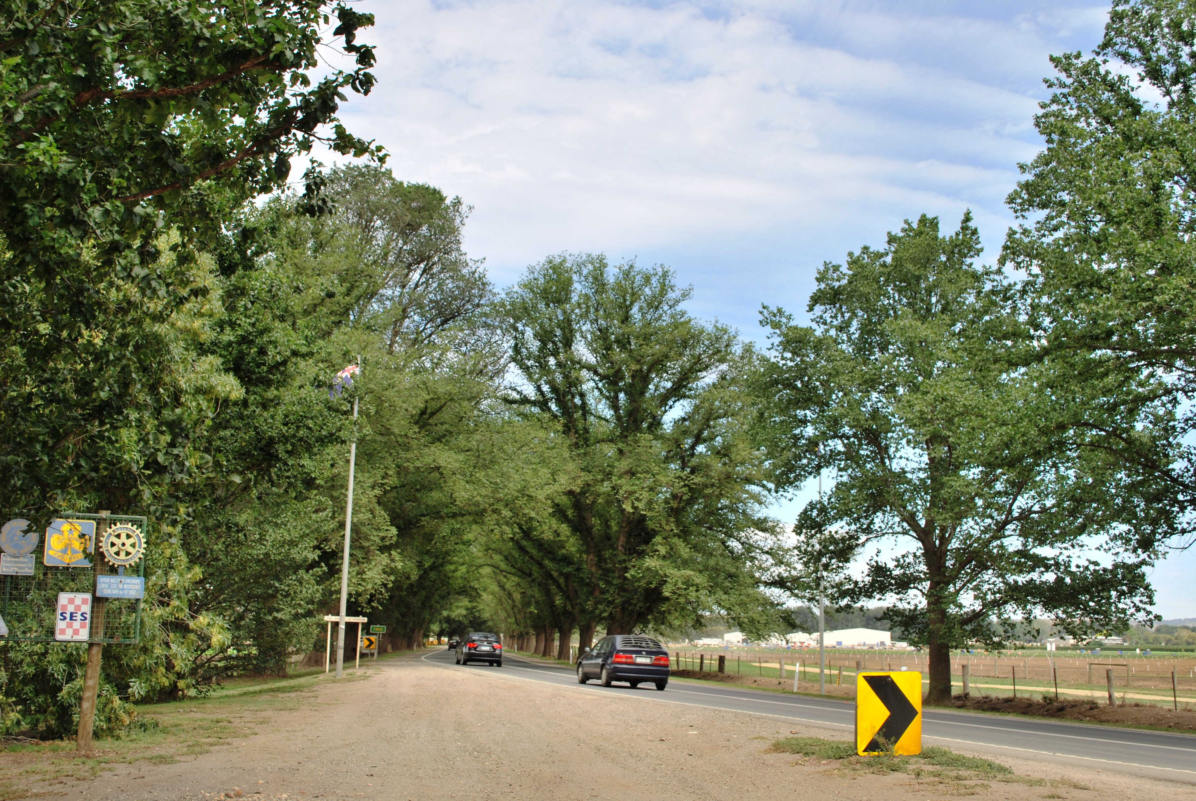 The Avenue of Honour at Bacchus Marsh, Victoria